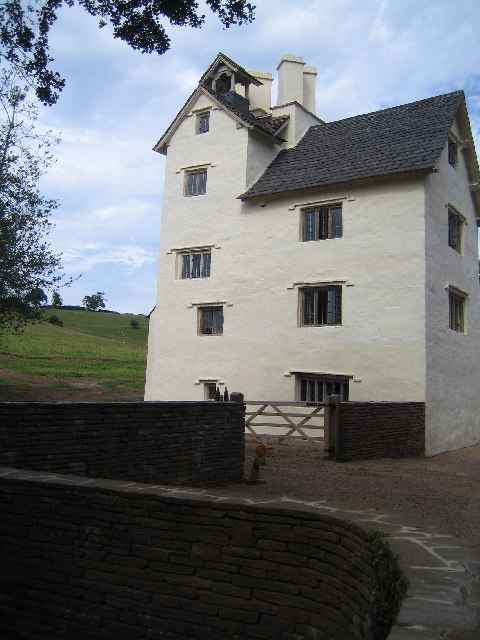 Allt-y-bela farmhouse. This hidden away mediaeval farmhouse has recently been renovated. It is unusual because of the tower added at the side by a former owner.